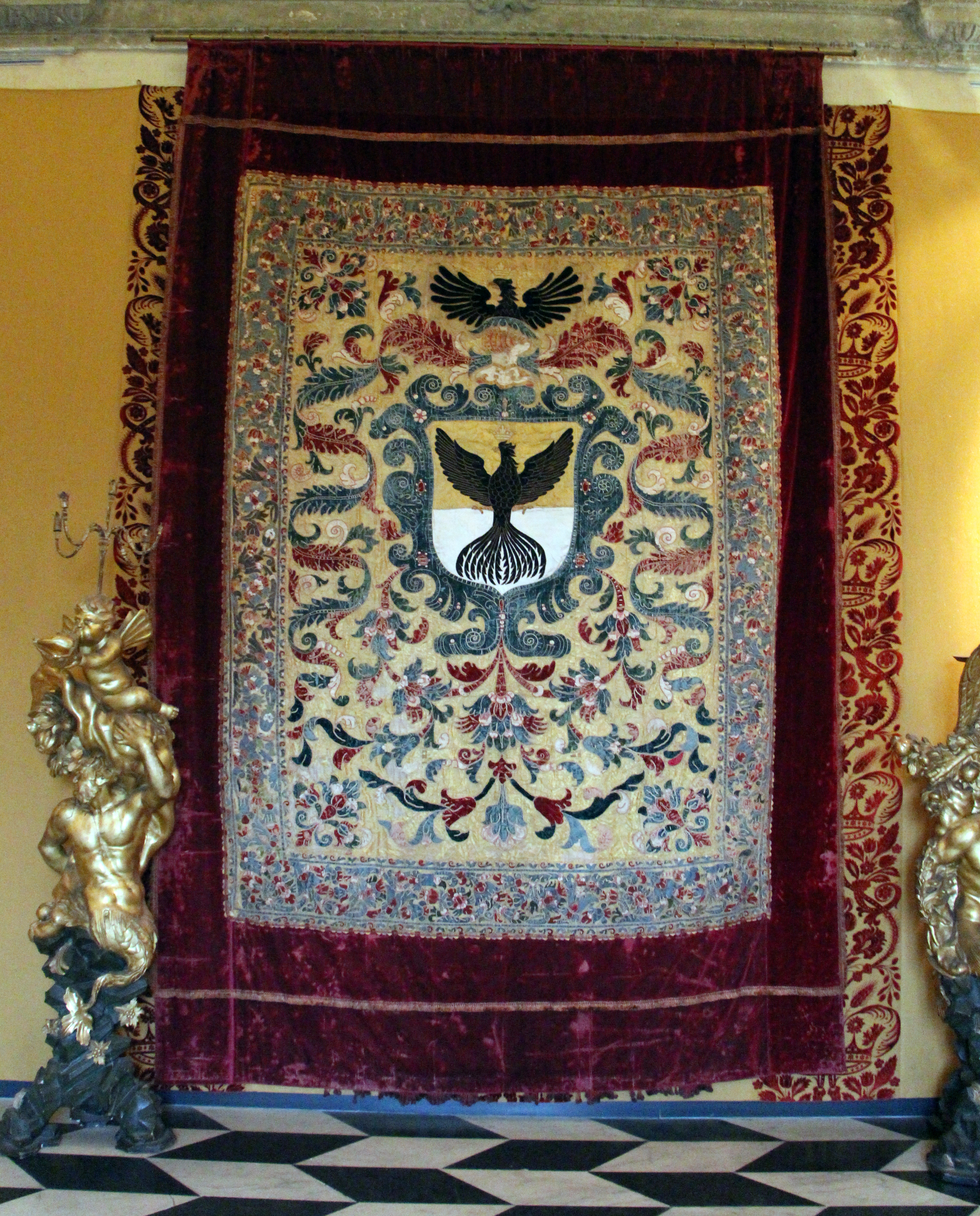 Interior of the Villa del Principe (Genoa) - Gallery